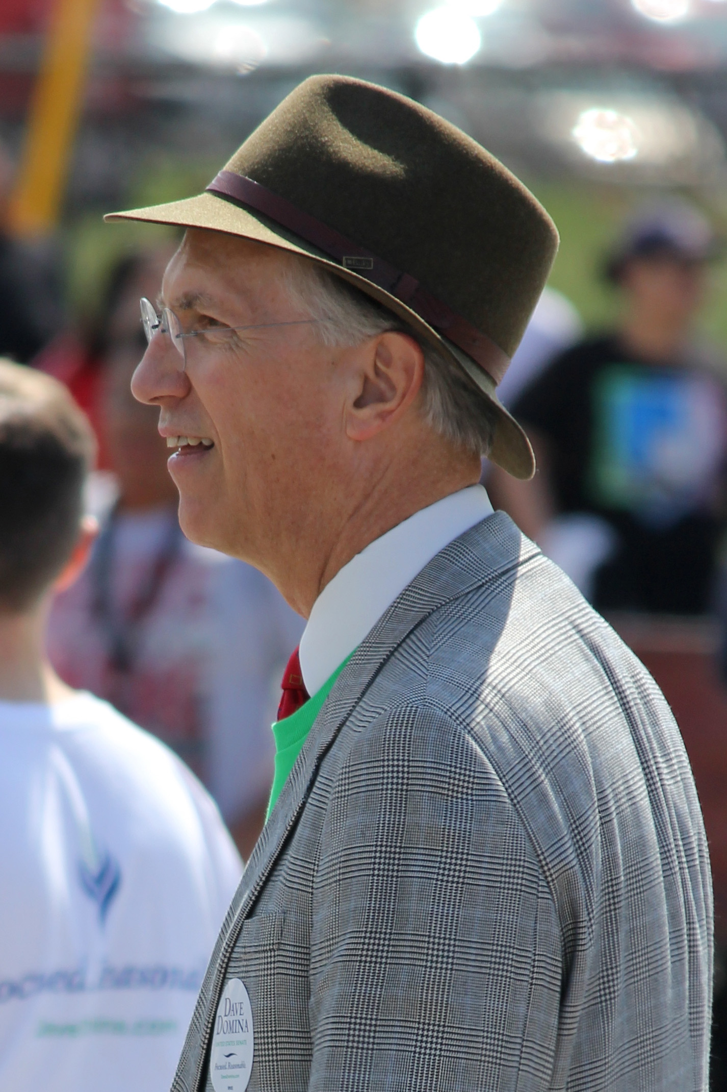 David Domina at the Cinco de Mayo parade in South Omaha, Neb.